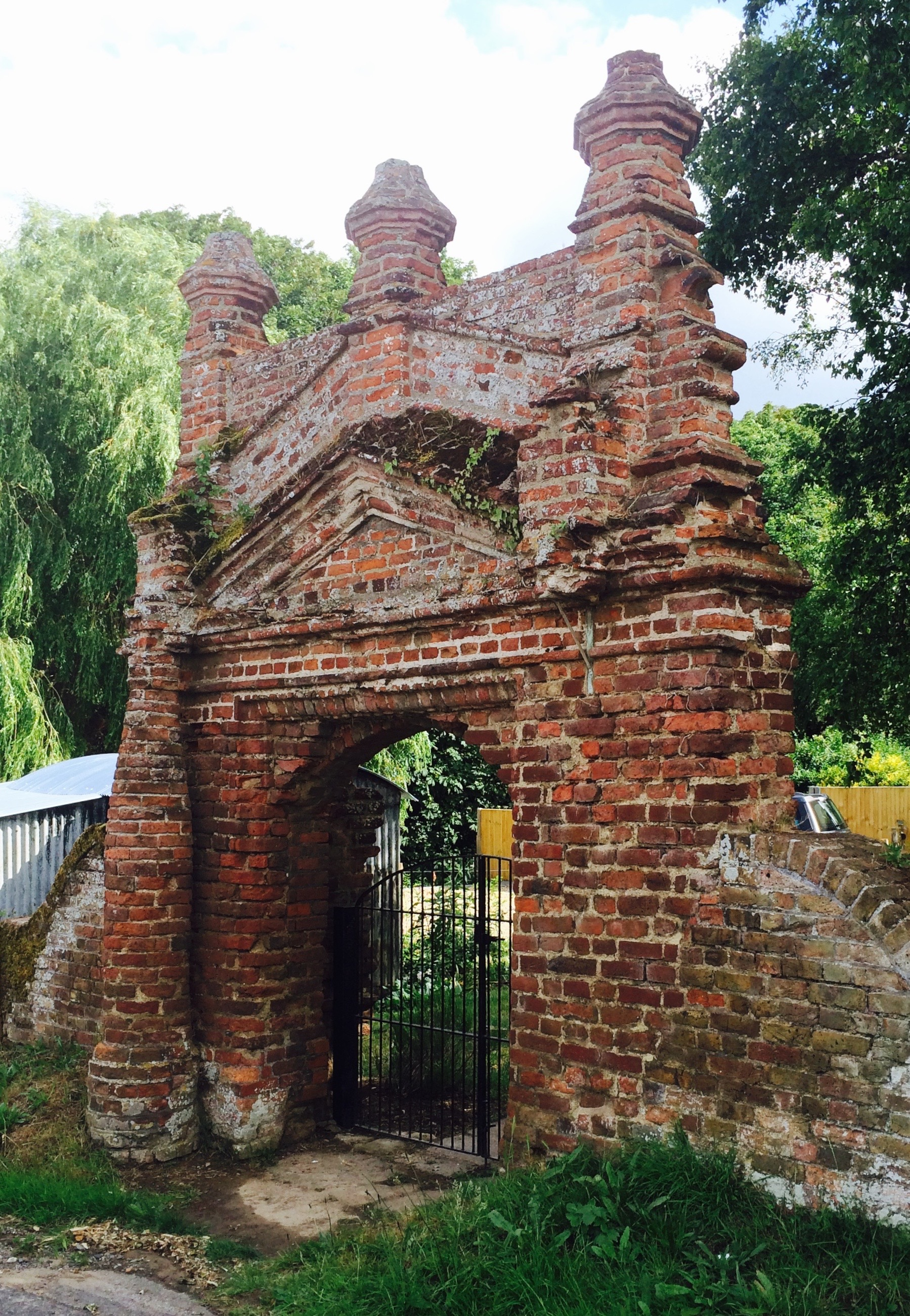 Elizabethan brick gateway near Reculver, a remnant of the home of Sir Cavalliero Maycote, whose family had an elaborate monument in the now ruined church at Reculver, and a burial vault under the chancel. As viewed from the adjacent public road.